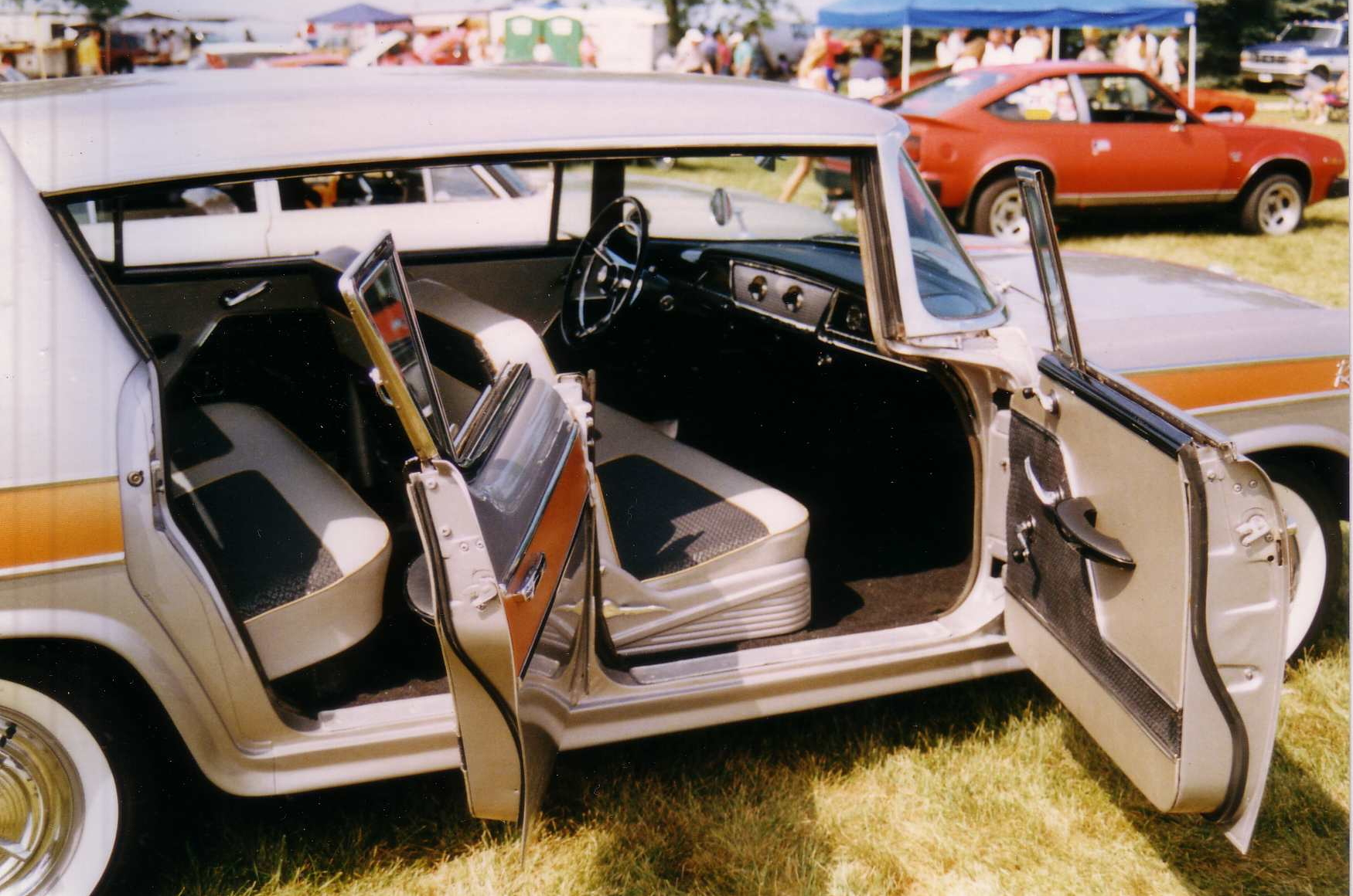 1957 Rambler Rebel 4-door hardtop (pillarless) muscle car by AMC (American Motors Corporation)